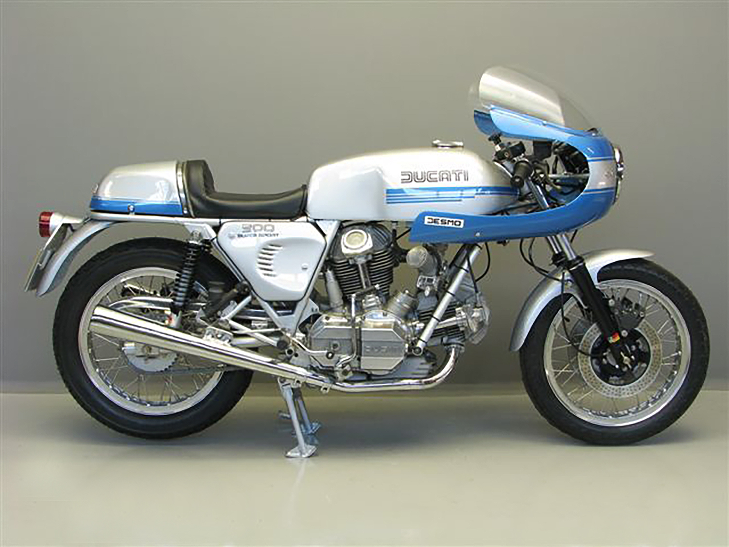 Ducati 900 SS motorcycle from 1977